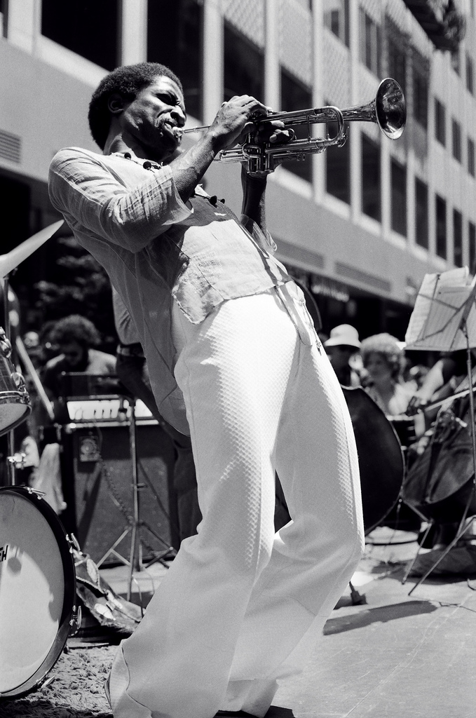 Hannibal Marvin Peterson NYC July 6, 1976